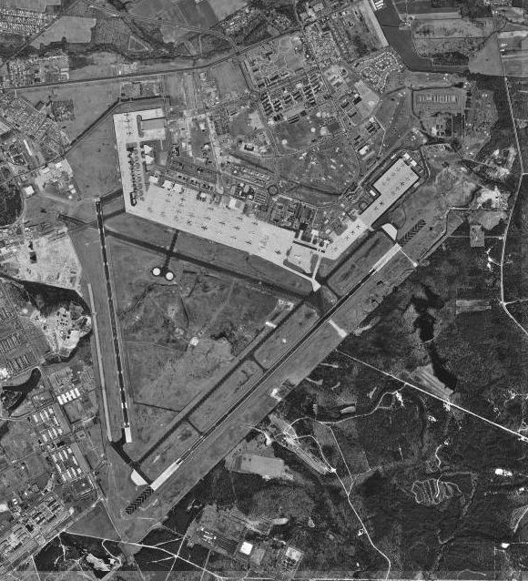 USGS orthophoto of McGuire Air Force Base, New Jersey